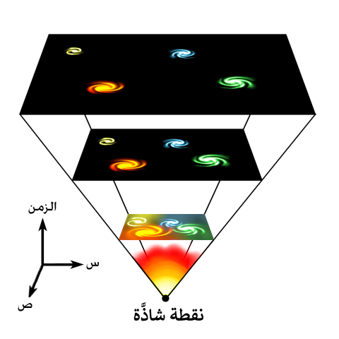 Arabic version of image:Universe expansion.png by me.